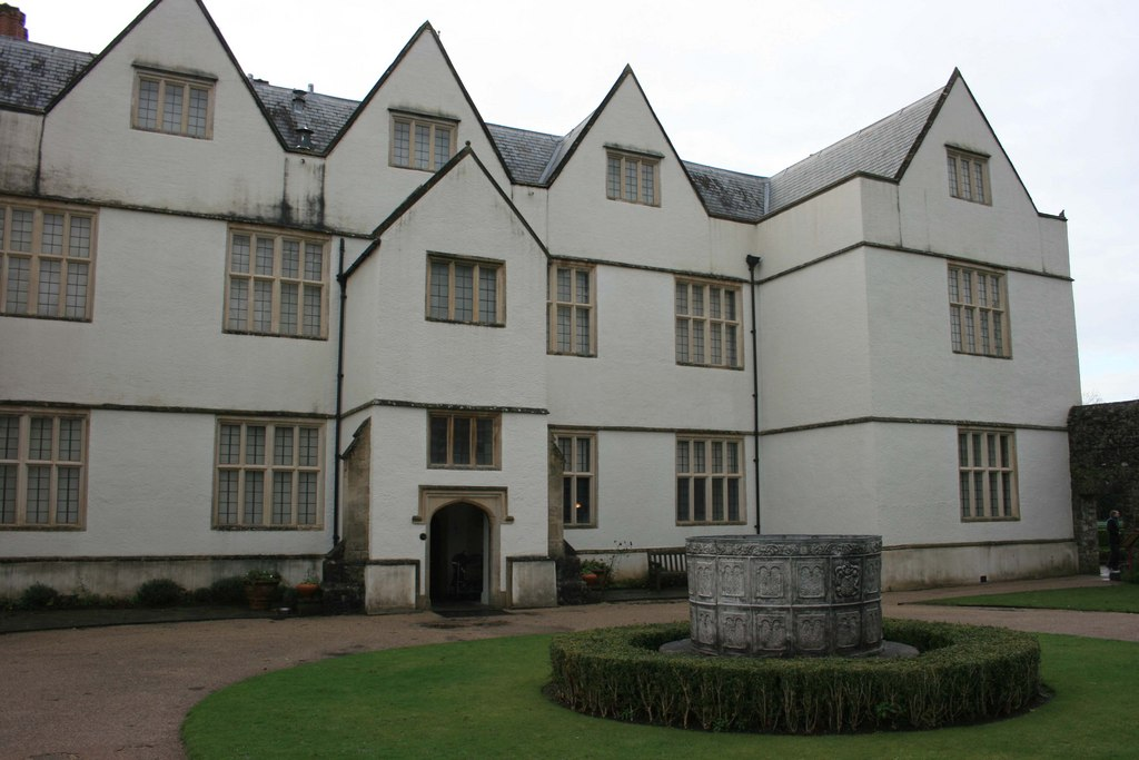 St Fagans Castle, Cardiff, Wales